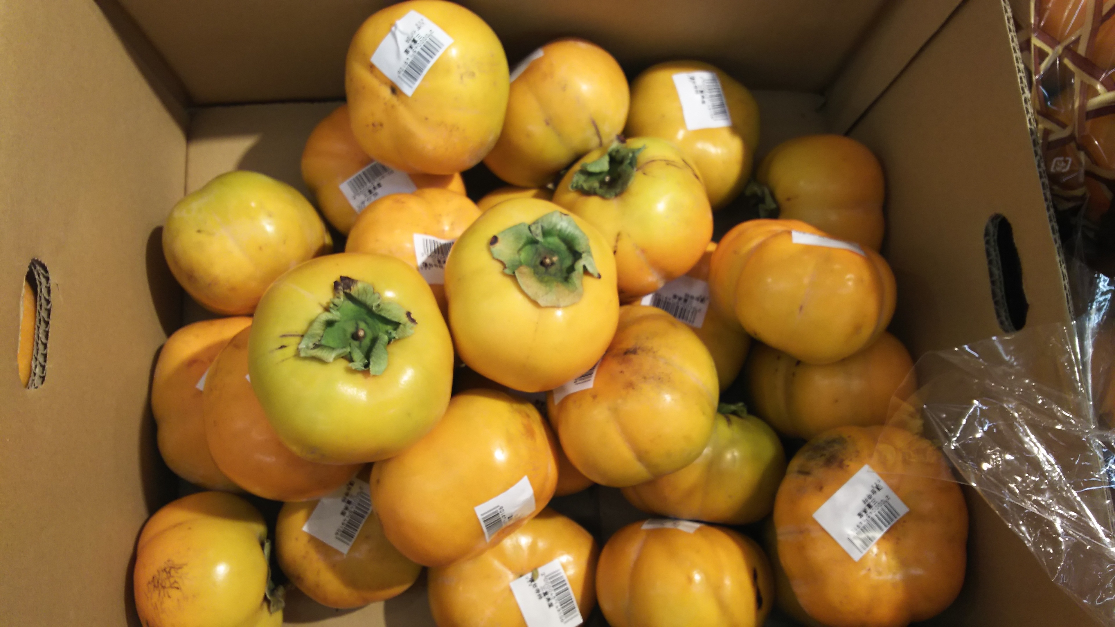 These are Rendaiji persimmons, which are produced in Ise, Mie, Japan.